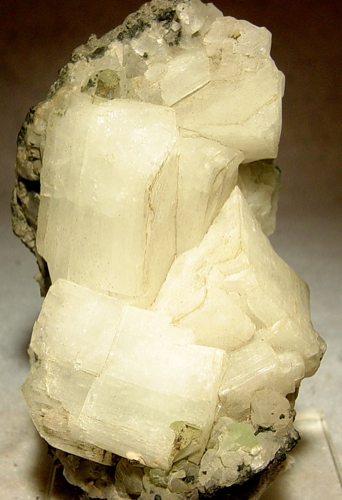 Apophyllite Locality: Paterson, Passaic County, New Jersey, USA (Locality at ) Apophyllite, with lustrous, blocky crystals to 3 cm, cupped attractively in the carefully-trimmed matrix. You can see traces of prehnite around the edges, where the apophyllite crystals meet the matrix. 8.5 x 6 x 4.5 cm